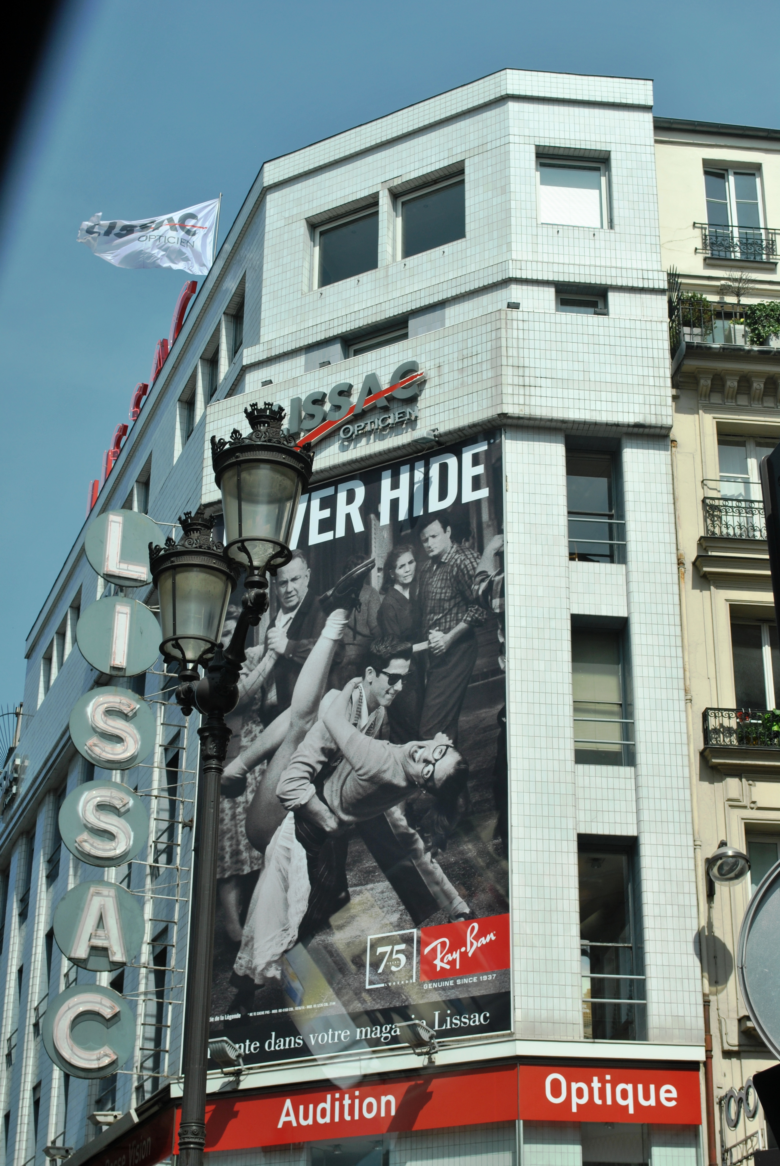 Lissac